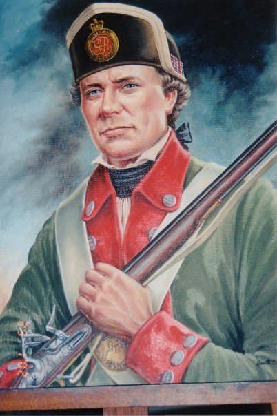 A graphical representation of a typical Butler's Rangers (1777–1784) soldier. This painting created by Garth Dittrick, a Canadian artist who has created paintings of various Loyalist soldiers (or "Tories") in the American Revolutionary War. His historic renderings have been featured as interpretive elements at many of Canada's National Historic Sites.